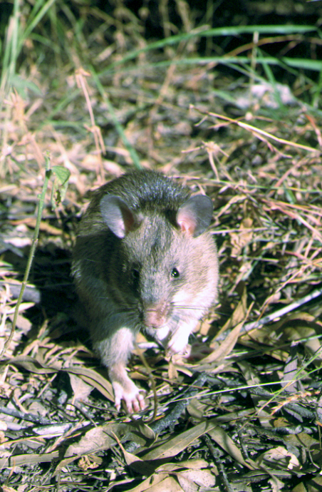 African giant rat or Gambian pouched rat (Cricetomys gambianus)